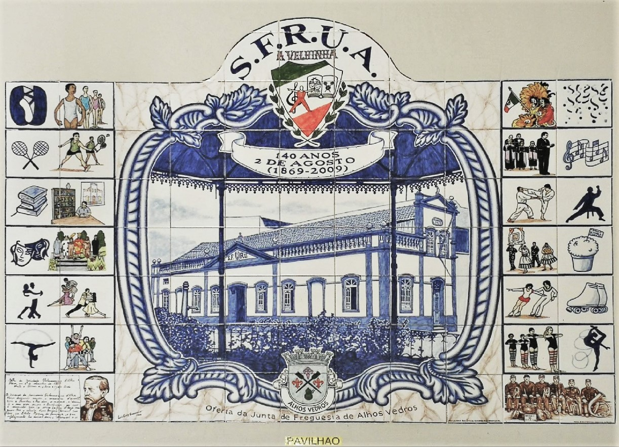 Mural comemorativo dos 140 da S.F.R.U.A.